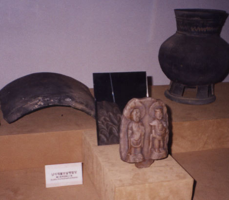 성열산 자락 평등사지에서 출토한 백제의 납석제불보살병립상 배면 산경문